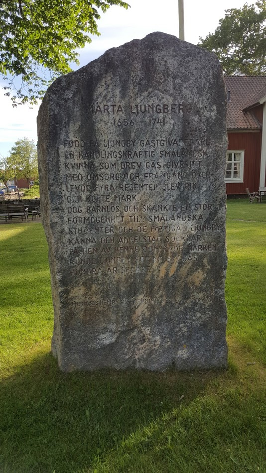 A memorial dedicated to Märta Ljungberg (1656-1741), who donated her riches to students and poor and her land where the town Ljungby later was founded. RAÄ-number Ljungby 73:1 according to the Swedish National Heritage Board (Riksantikvarieämbetet) The stone reads: Märta Ljungberg / 1656-1741 / Born on Ljungby hostelry. A energetic Smålandian who ran the hostelry with care and success, survived four regents, became rich and bought land. / Died childless and gave a great wealth to Smålandian students and the poor in Ljungby, Kånna and Angelstad parishes. On the of her donated land could Ljungby town be built a hundred years later. / Ljungby historical society erected this stone 1981.